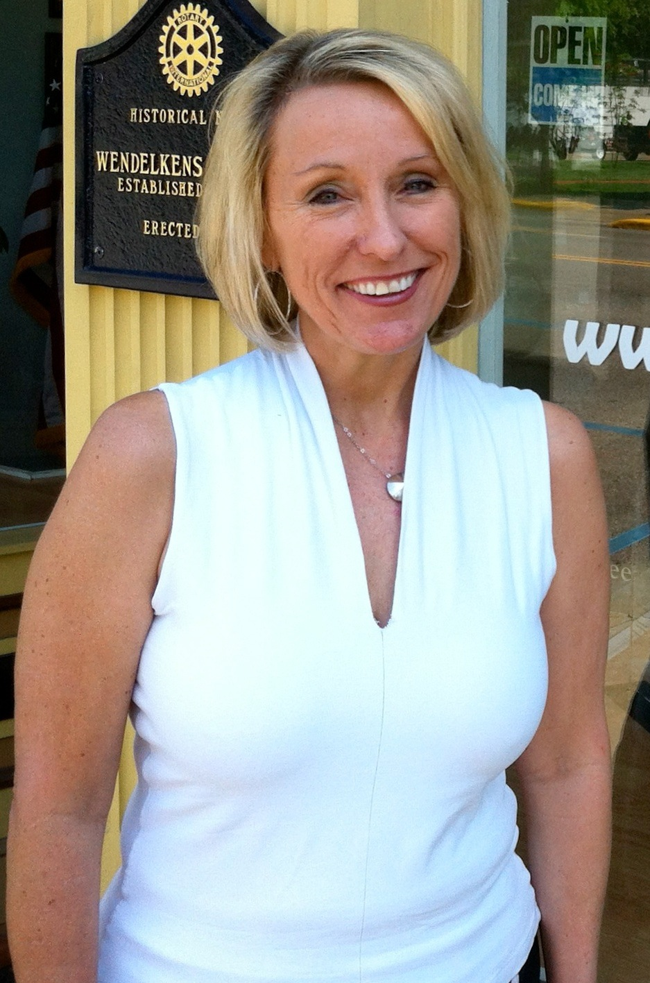 Congressional candidate and former Ohio State Rep. Jennifer Garrison.